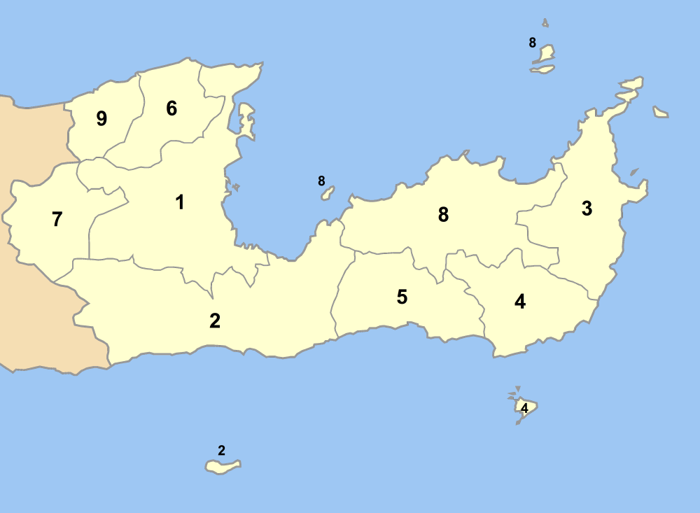 Map of Lasithi prefecture (Greece) with administrative divisions (municipalities and communities) numbered in alphabetical order (in greek). Legend: 1. Δήμος Αγίου Νικολάου - Agios Nikolaos 2. Δήμος Ιεράπετρας - Ierapetra 3. Δήμος Ιτάνου - Itanos 4. Δήμος Λεύκης - Lefki 5. Δήμος Μακρύ Γιαλού - Makrys Gialos 6. Δήμος Νεάπολης Λασιθίου - Neapolis Lasithiou 7. Δήμος Οροπεδίου Λασιθίου - Oropedio Lasithiou 8. Δήμος Σητείας - Sitia 9. Κοινότητα Βραχασίου - Vrachasi